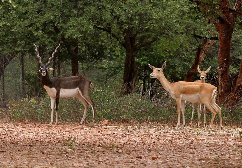 Blackbuck Antilope cervicapra in Hyderabad , India.